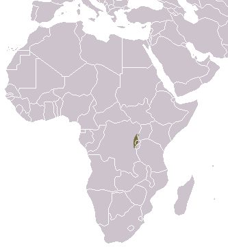 Ruwenzori Otter Shrew (Micropotamogale ruwenzorii) range